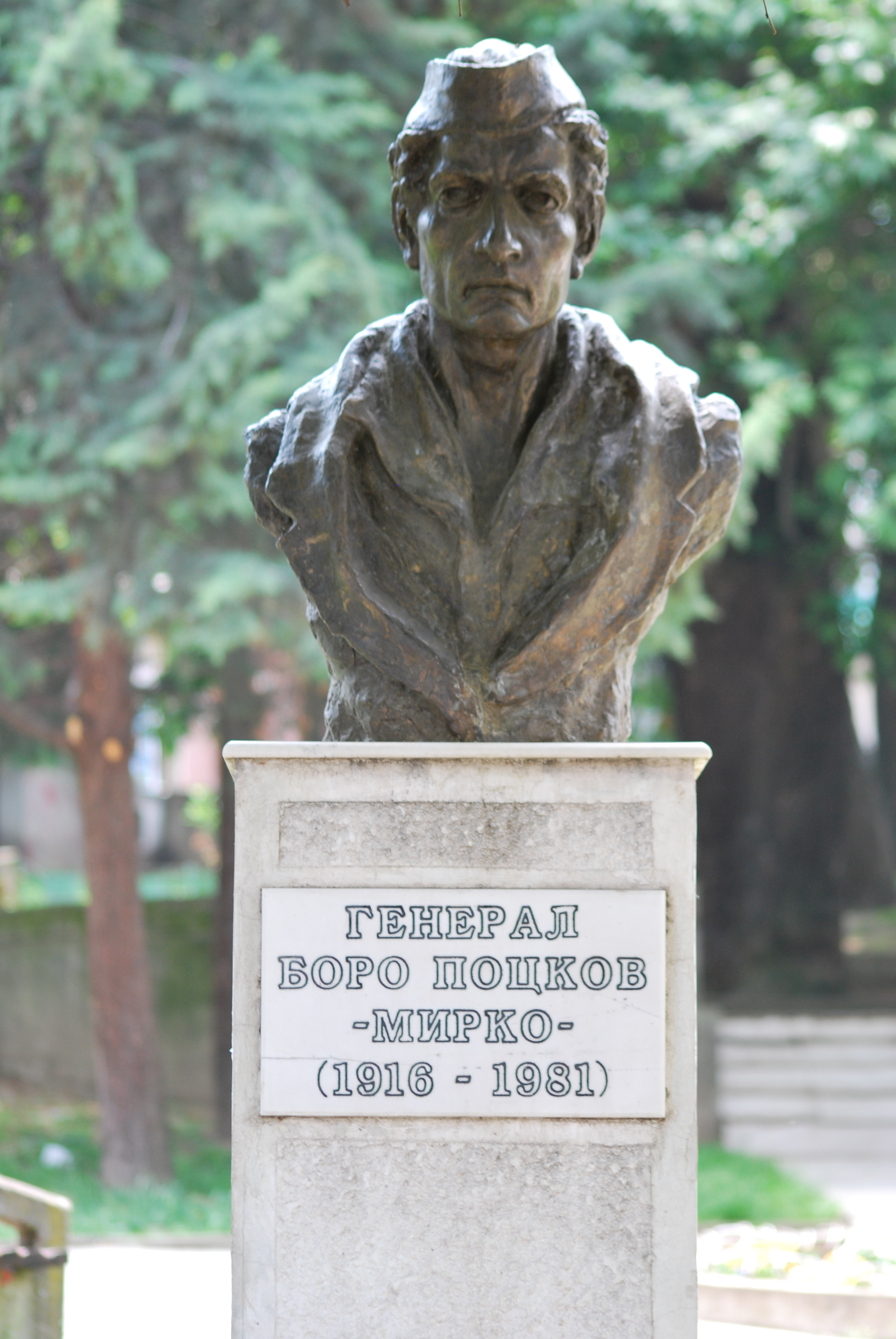 Statue of Boro Pockov in Strumica, Macedonia